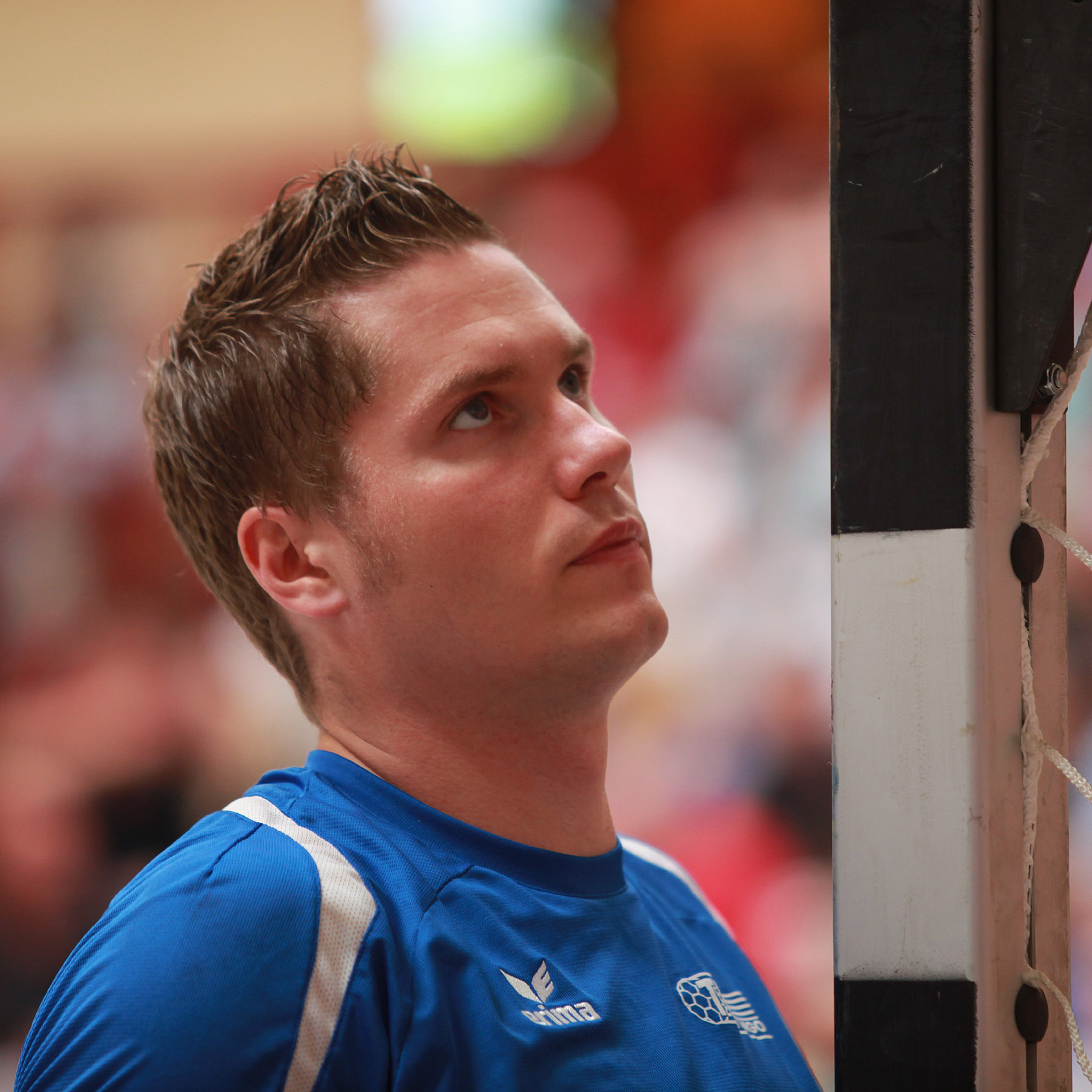 Sebastian Preiß, German handball player from TBV Lemgo during the Schlecker Cup 2009 in Ehingen (Germany)